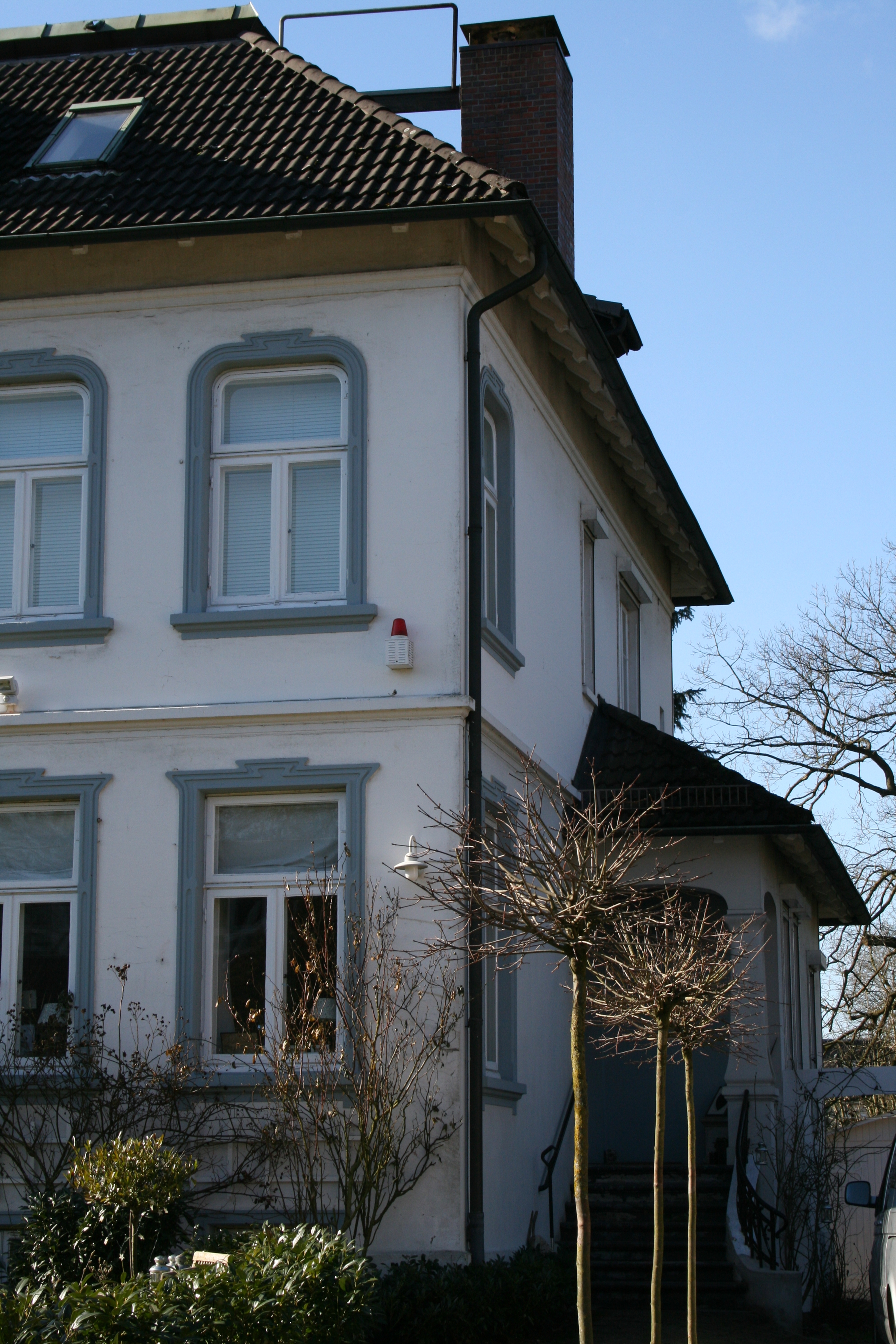 House Pfingstberg 6 in Hamburg-Bergedorf, here lived Dr. Walter Rudolphi, a victim of Nazism. In front of the house there is a Stolperstein for W. Rudolphi.